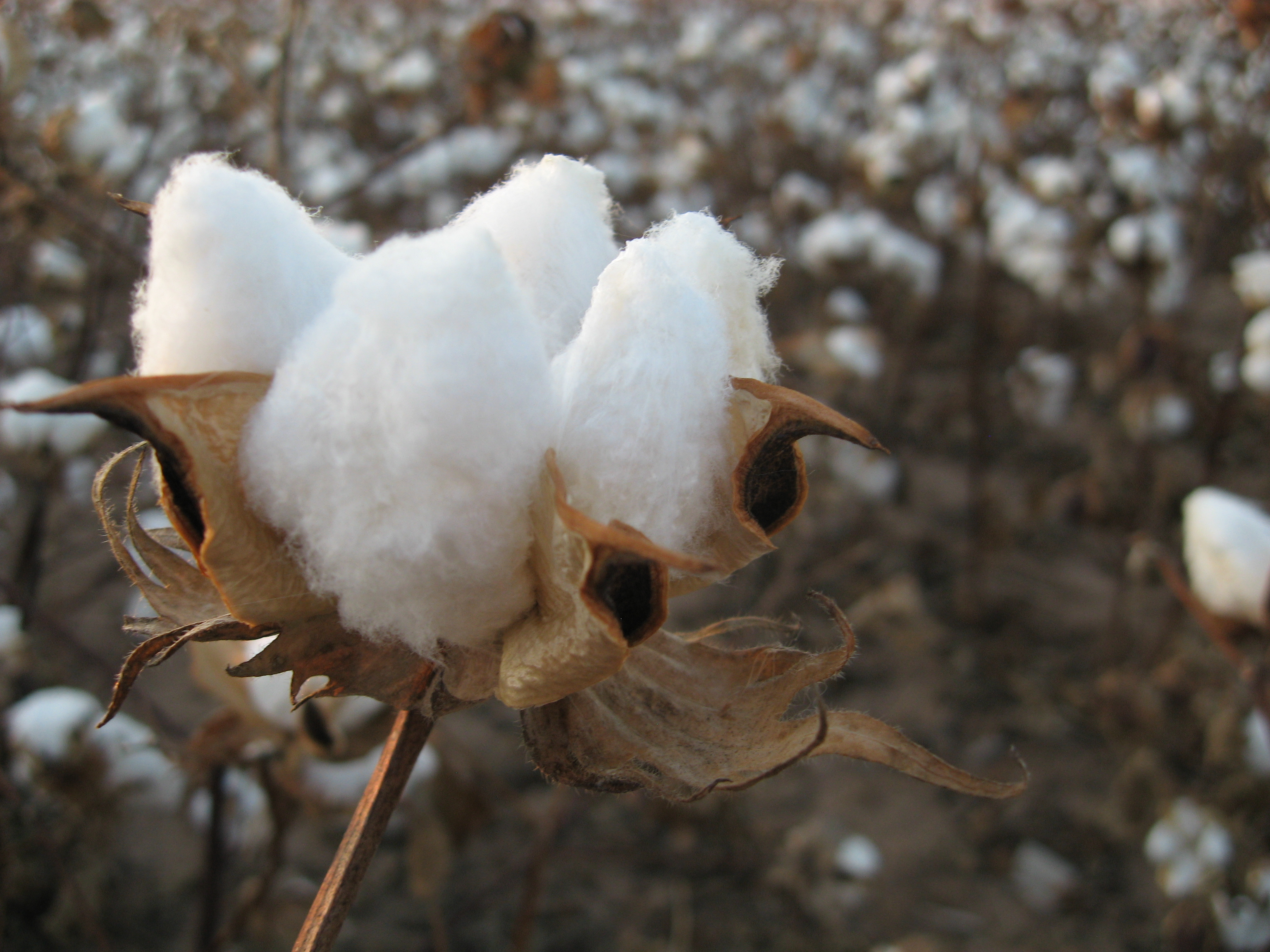 A cotton field (somewhere in the USA presumably)